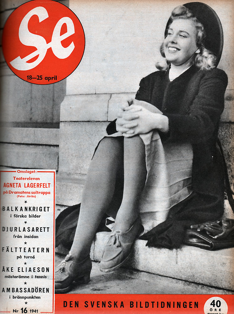 Actress Agneta Lagerfelt (1919 − 2013)